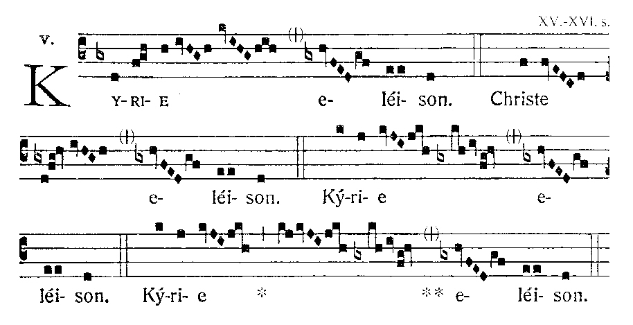 Kyrie eleison, VIII. mass Graduale novum de dominicis et festis (2011) p. 44